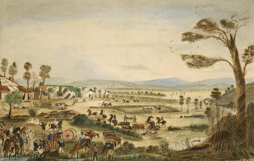 The Wills Tragedy. The Arrival of the Neighbouring Squatters & Men collecting and burying the Dead &c. After the Attack by the Blacks on H.S. Wills Esq's Station Leichhardt District. Queensland. October.19th 1861, painting, watercolour, 47 x 74 cm